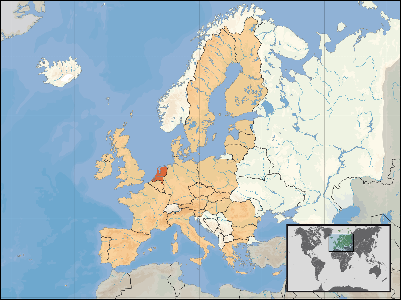 Location of the Netherlands within Europe and the European Union on the 1st of January 2007.